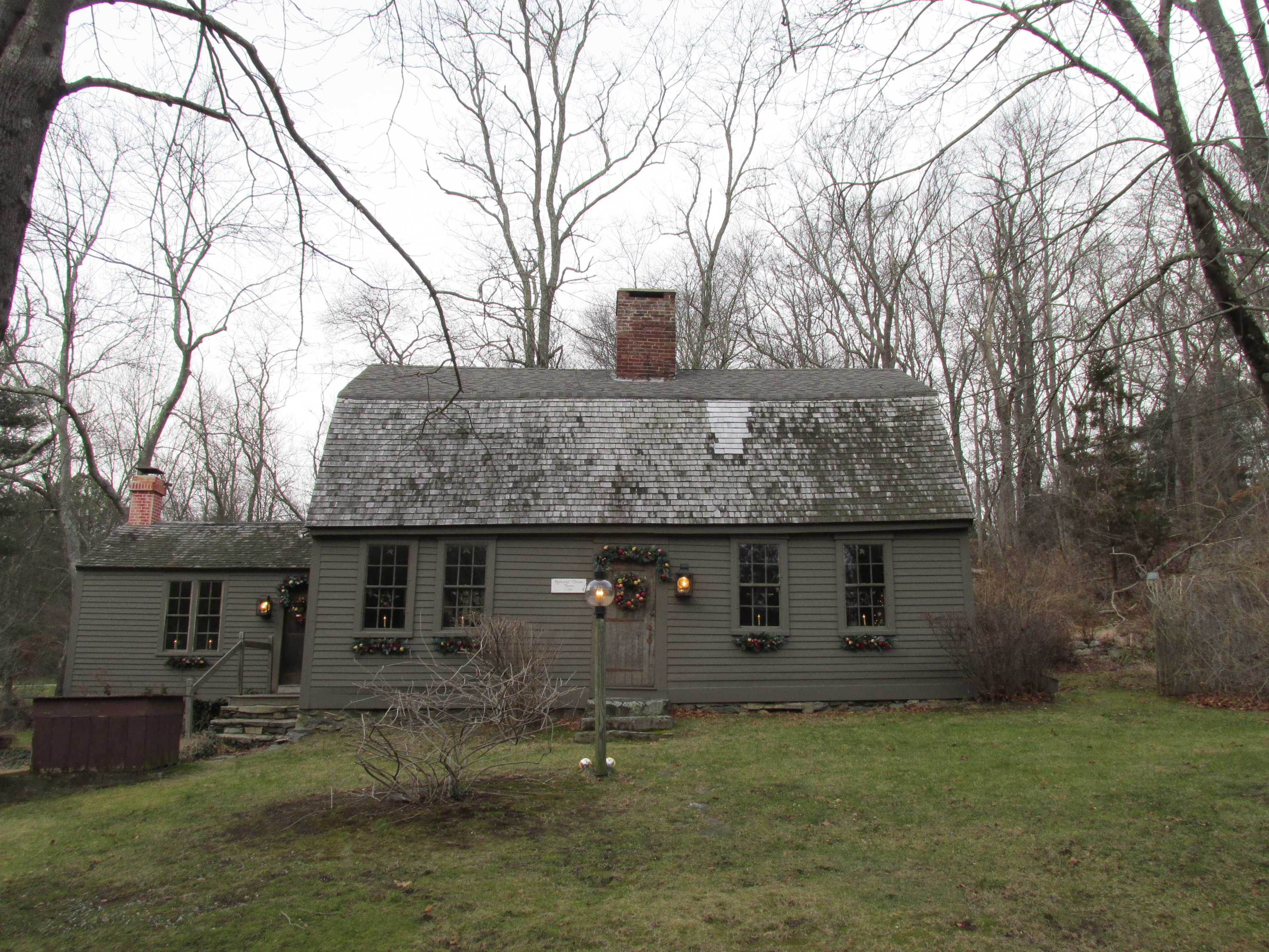 Nathaniel Drown House, Rehoboth Massachusetts - 2012